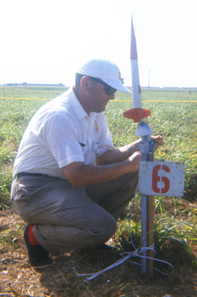 G. Harry Stine (1928-1997) prepares a model rocket for launch at NARAM-12, Houston, TX, USA, 1970.